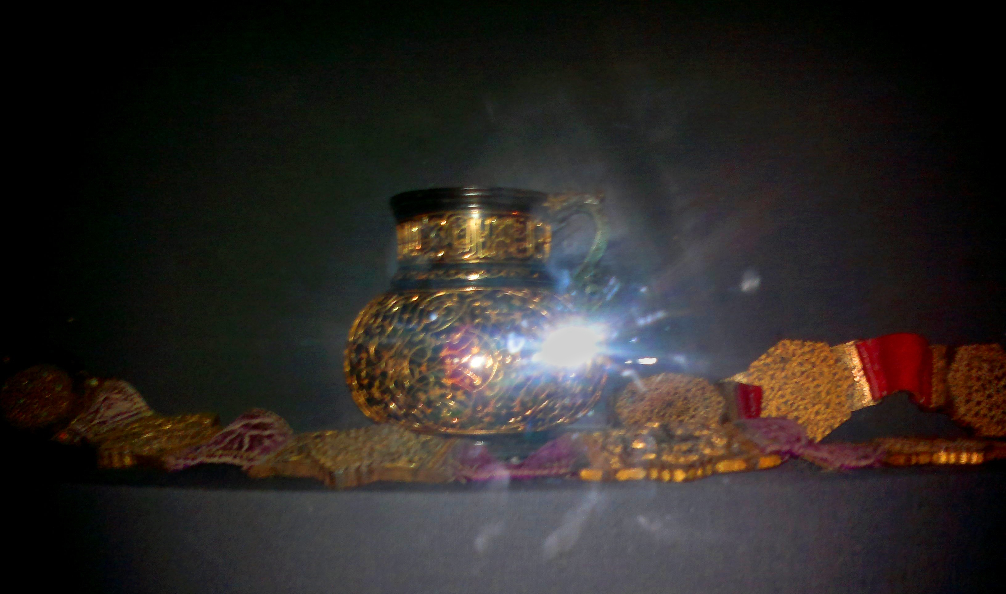 Personal items of Shah Ismail I captured bu Selim I during Chaldiran Battle. The name of Ismail written on the vase and belt. On the belt it is written also the name of its author Enverullah. Topkapi Museum. Istanbul